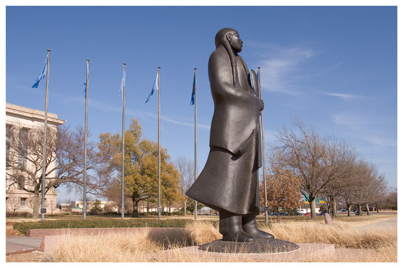 A statue of an Indian in tribal dress, located at the State Capitol of Oklahoma.